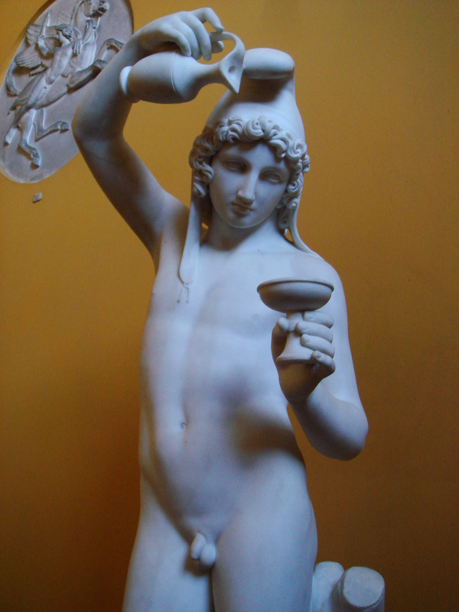 Pouring Ganymede, by Bertel Thorvaldsen. Thorvaldsens museum in Copenhagen. Picture by Stefano Bolognini.